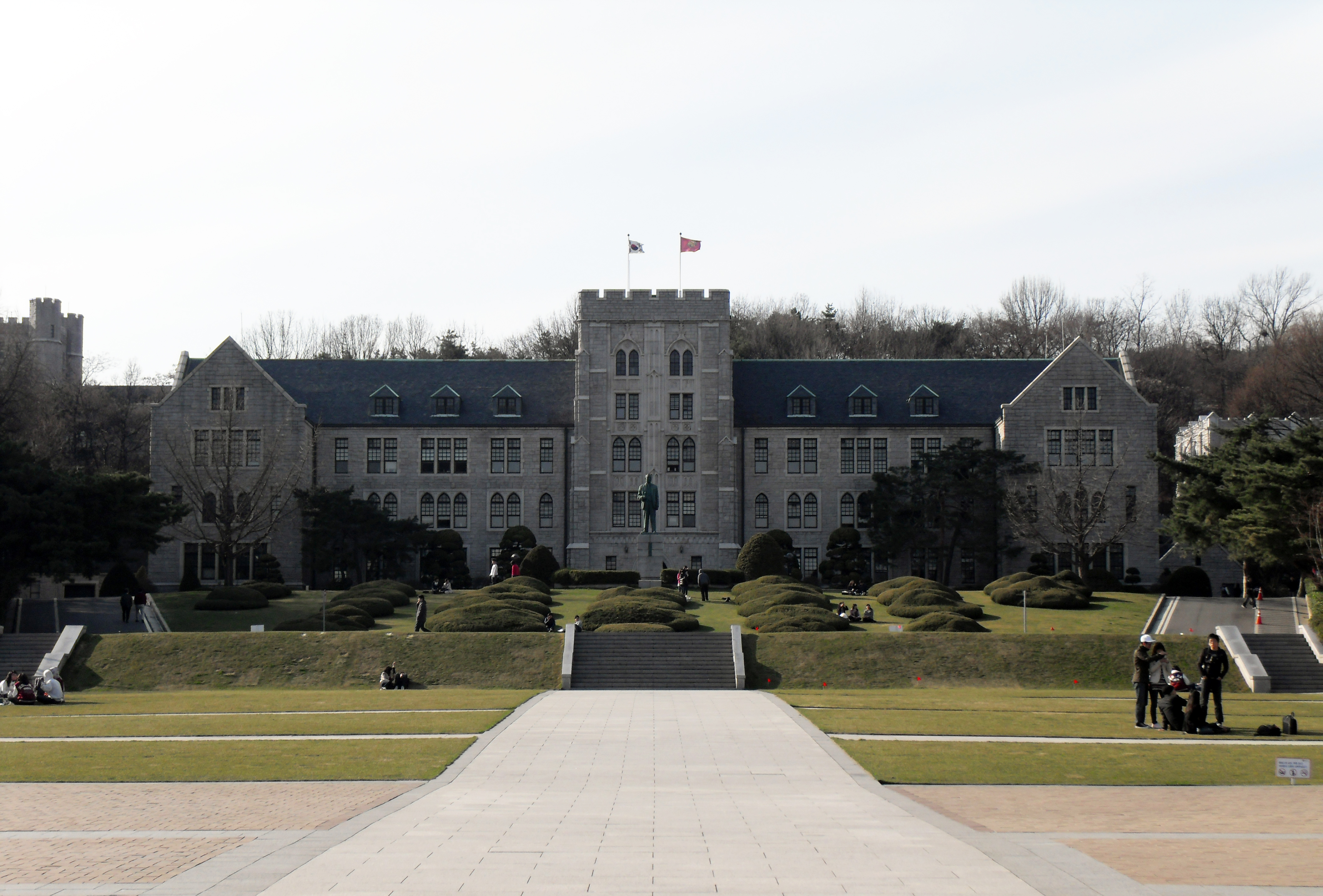 Main Hall of Korea University.